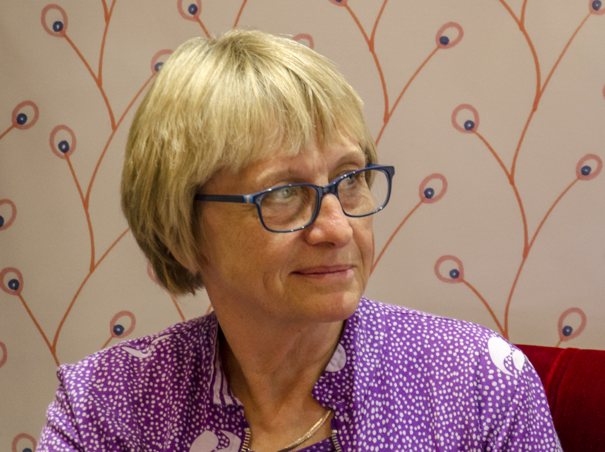 Helena Bross at the Gothenburg Book Fair 2015.